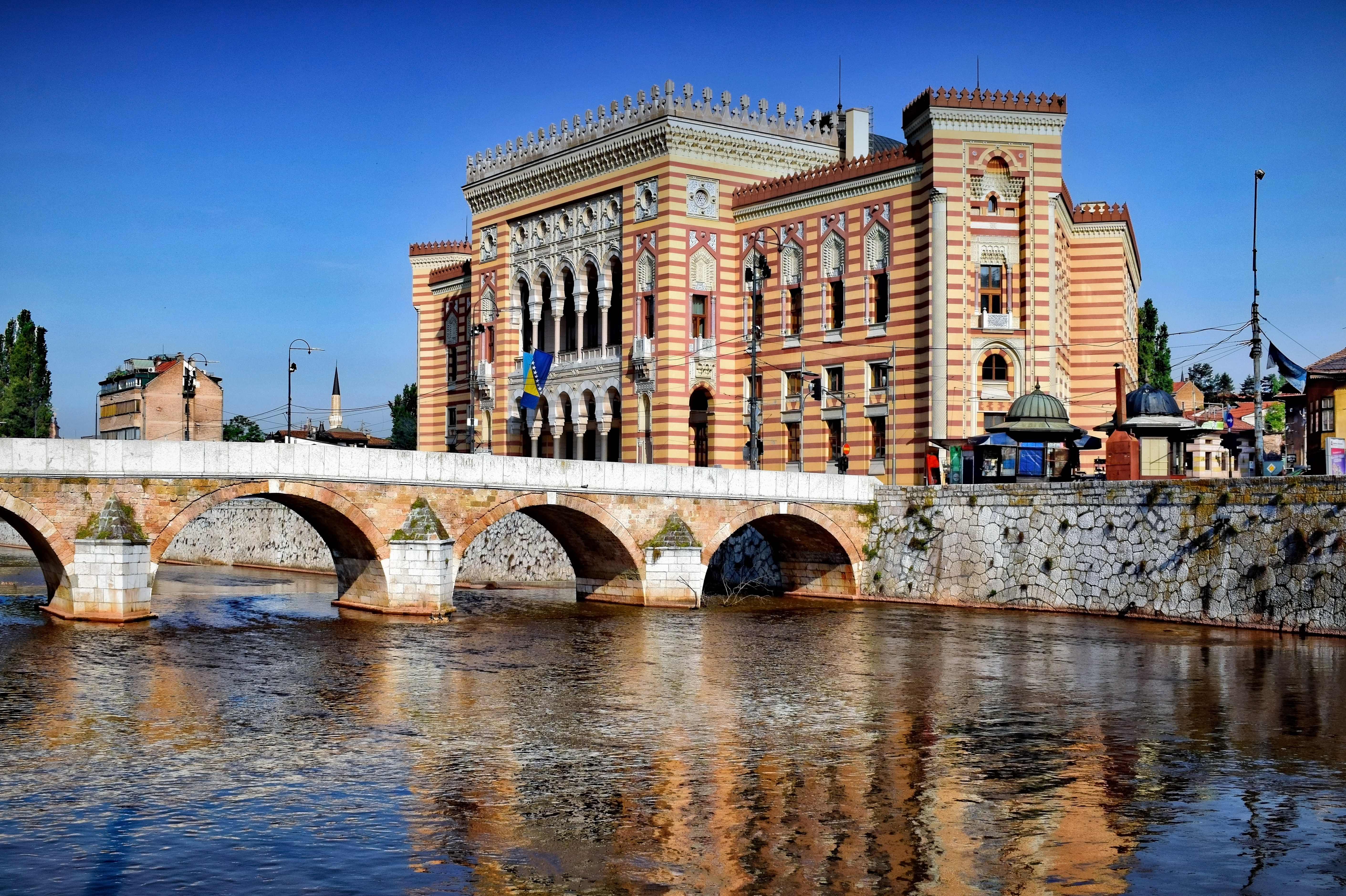 Library and City Hall, Sarajevo Published on Flickr in the album "Bosnia & Herzegovina".